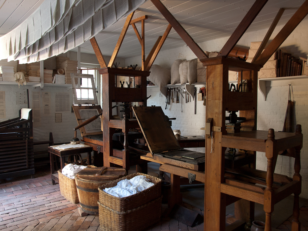 Eighteenth-century printing press with drying newspapers and rag supply.